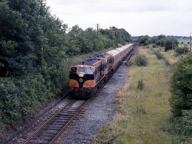 Train at KilcockTwo CIE 141/181 class locomotives haul Mk3 stock past the site of Kilcock station with a Galway - Mosney special working. Kilcock station closed in the mid-1970s and little remains.